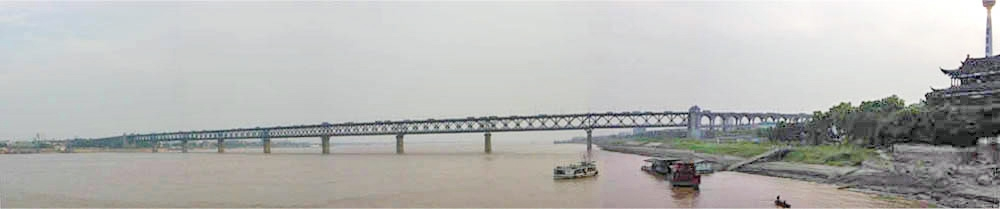 First modern bridge at Wuhan, China, crossing the Chang Jiang (Yangtze) river: This was the first modern river crossing at this location and is still known as "The First Bridge". It was built under the direction of Russian engineers using Chinese materials and construction crews. Before this was available, railroad trains would be barged across the river, taking up to an entire day to cross. This bridge carries two tracks of railroad below and four lanes of vehicular traffic above and joins Snake Hill with its Yellow Crane Tower on the South to Turtle Hill on the North, here to our right.